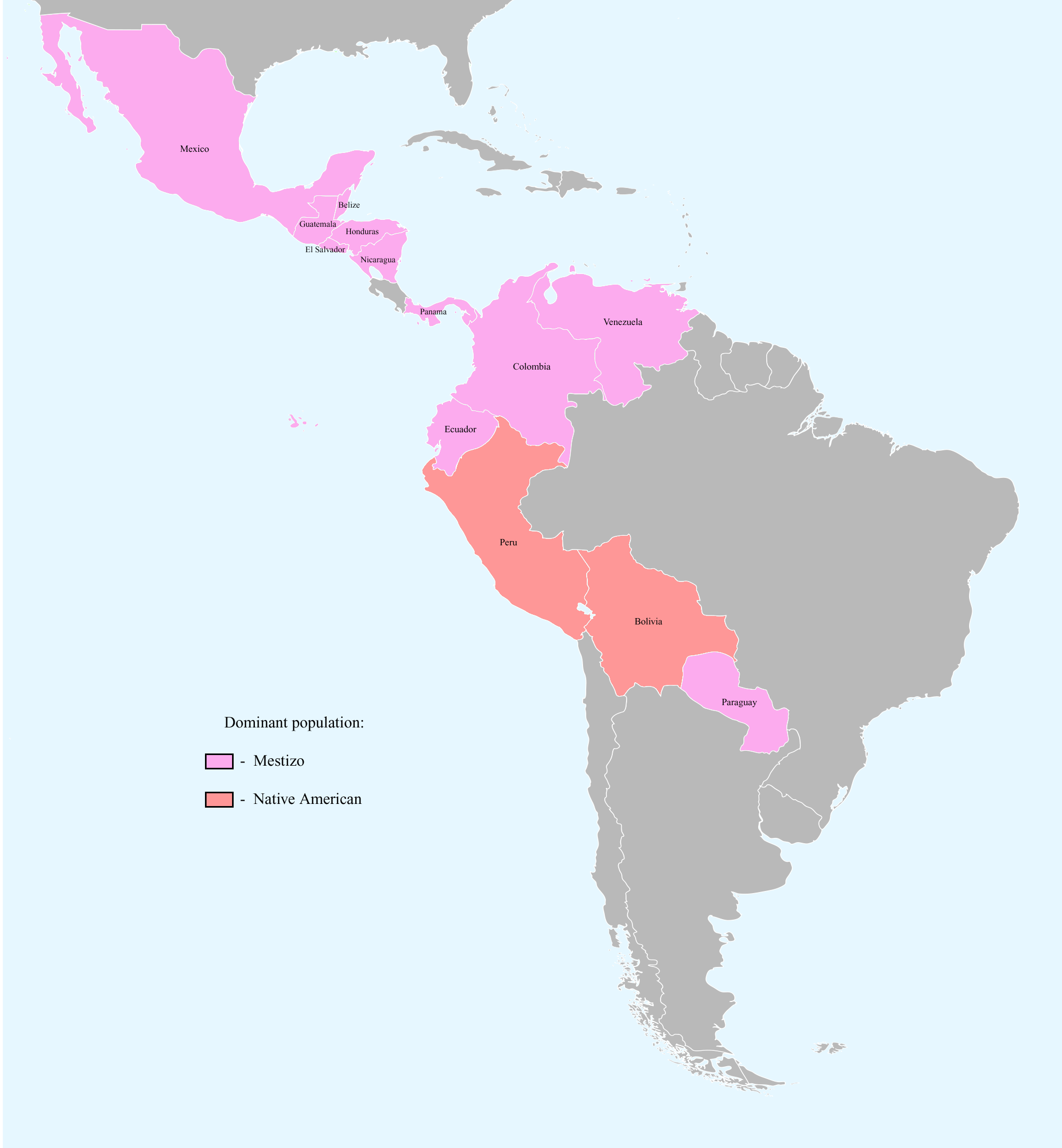 Countries with dominant Mestizo and Native American population - Based on this blank map of Latin America and data from CIA – The World Factbook – Ethnic groups and countrystudies.us - Venezuela.